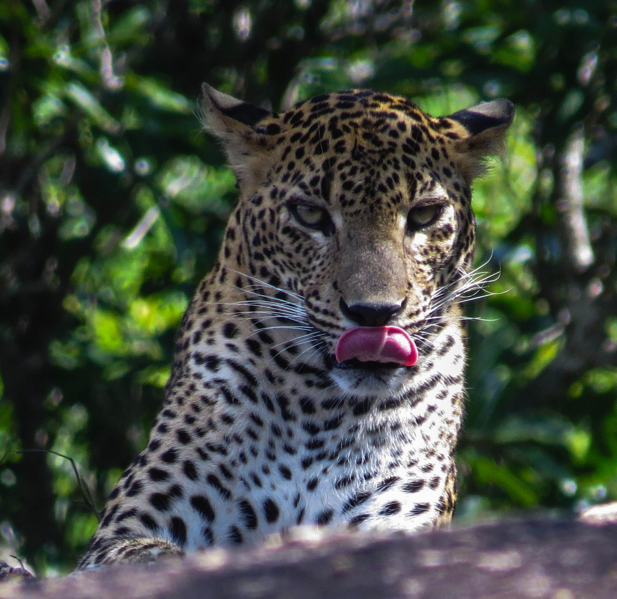 Elusive Sri Lankan leaopard in Yala National Park